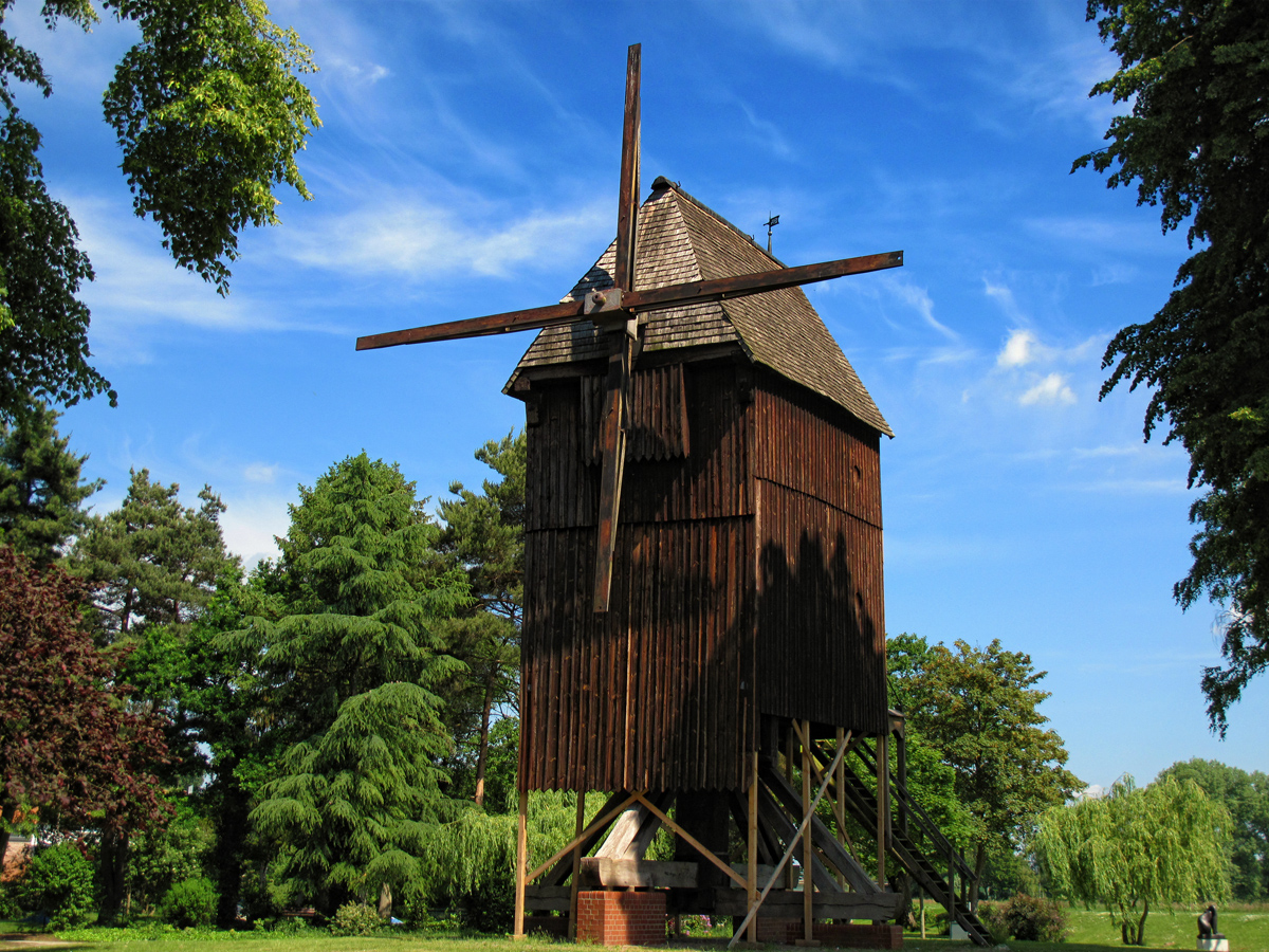 Bockwindmühle from 1594 in Rethem (Aller)